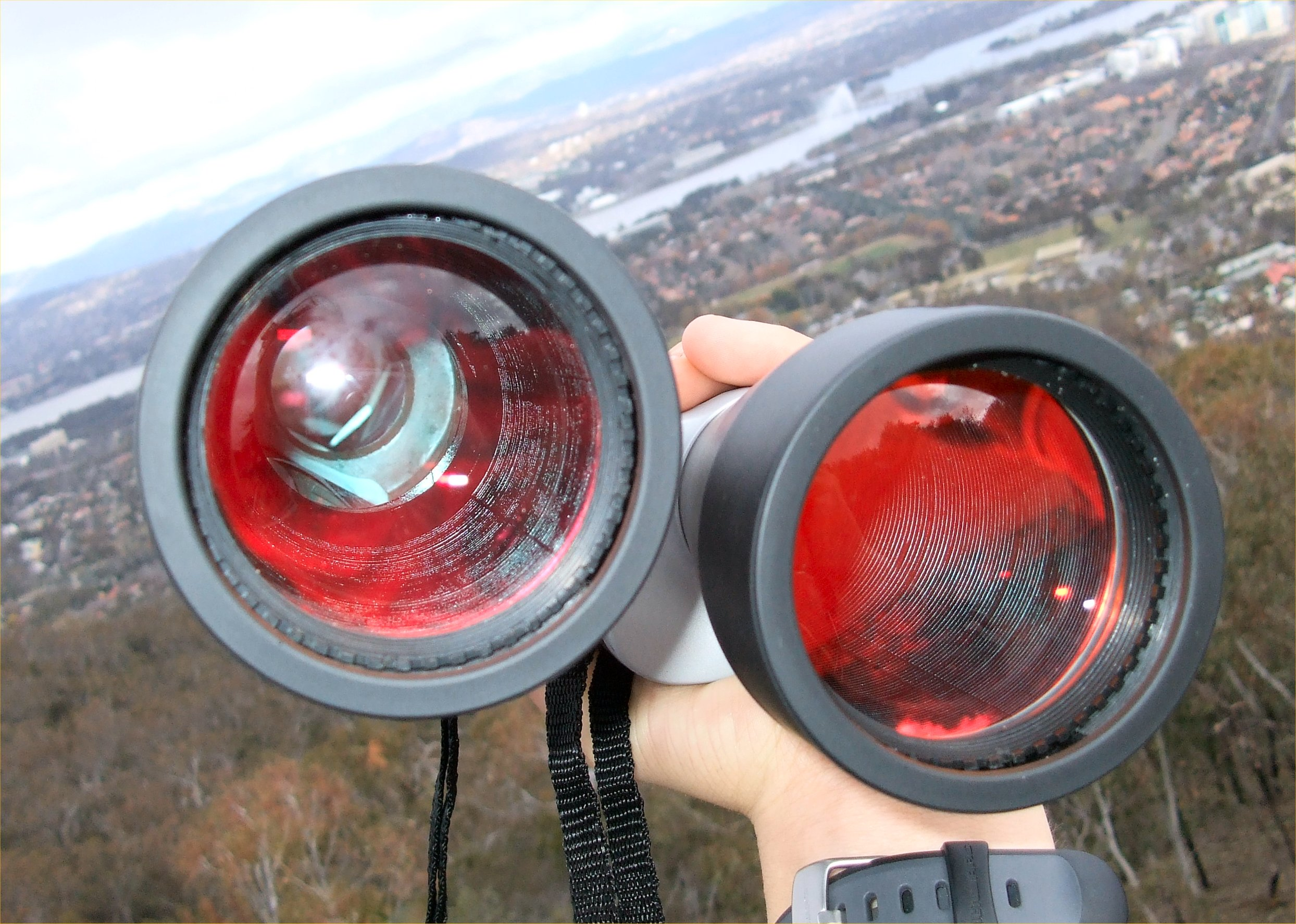 A picture of a pair of Binoculars.